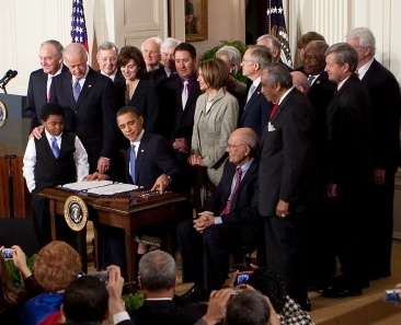 (Official White House Photo by Lawrence Jackson)